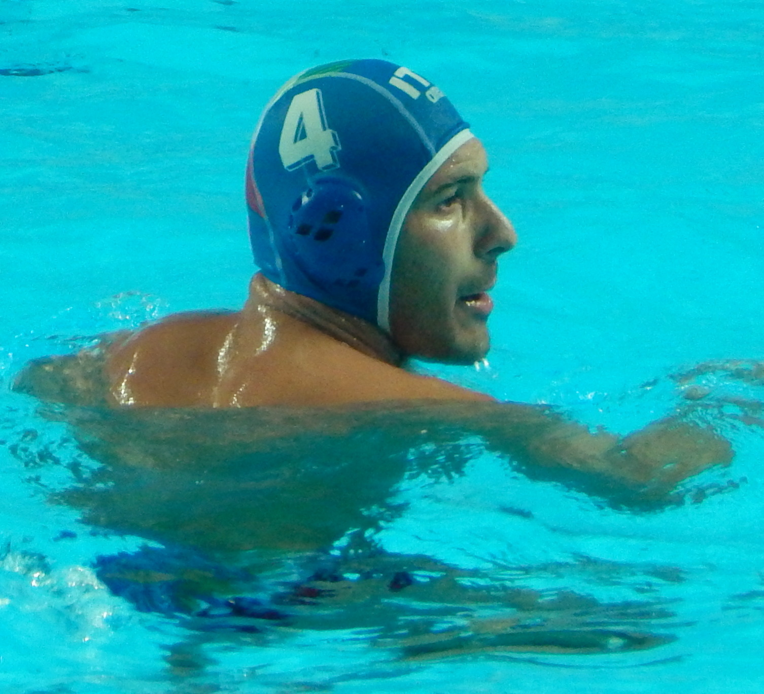 The bronze medal match between Team Greece and Team Italy. All photos have been taken from the photographers sector. I was simply usual visitor but my ticket was to non-existent seats, therefore I was moved to that sector. All good photos I upload to WikiCommons for free use.